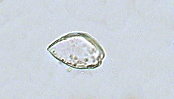 Hydrofront of Dnieper-Bug Liman